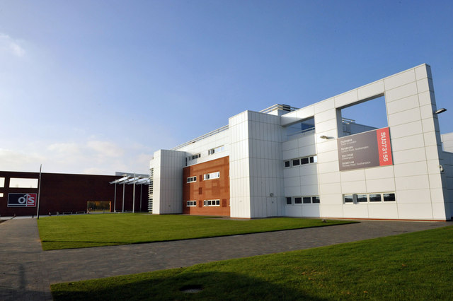 Side view of Ordnance Survey's new HQ